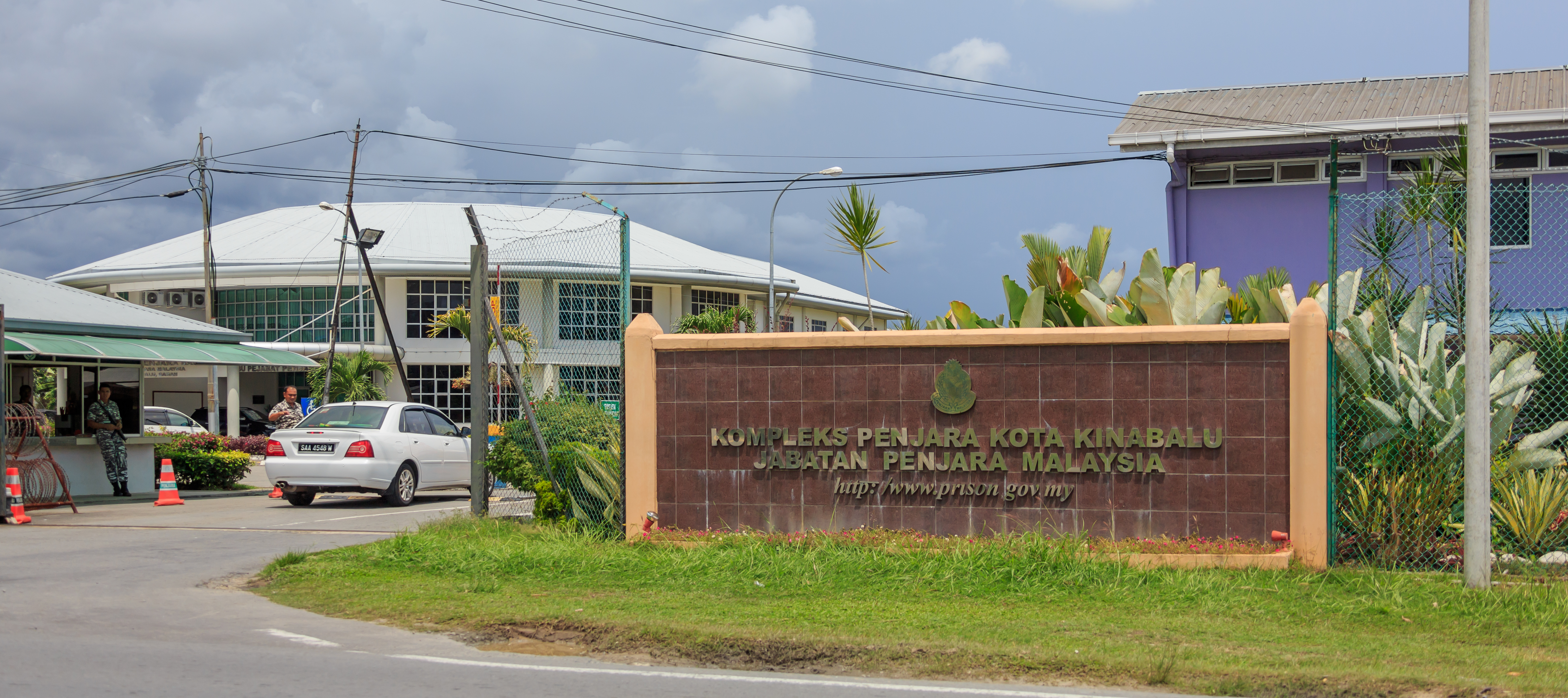 Kepayan, Kota Kinabalu, Sabah: Prison Complex (Kompleks Penjara Kota Kinabalu)